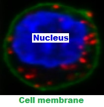 Proximity Ligation Assay: Visualization by flourescent microscopy